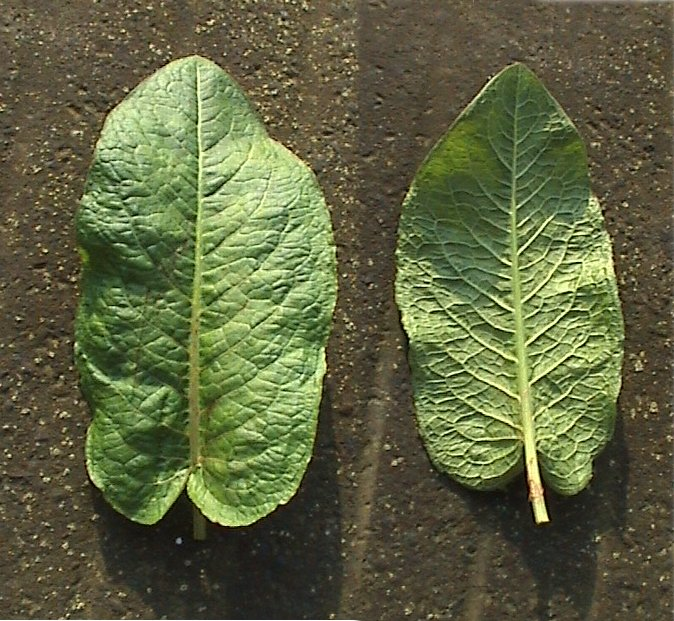 Rumex obtusifolius (Leafs, Front- and Backside)